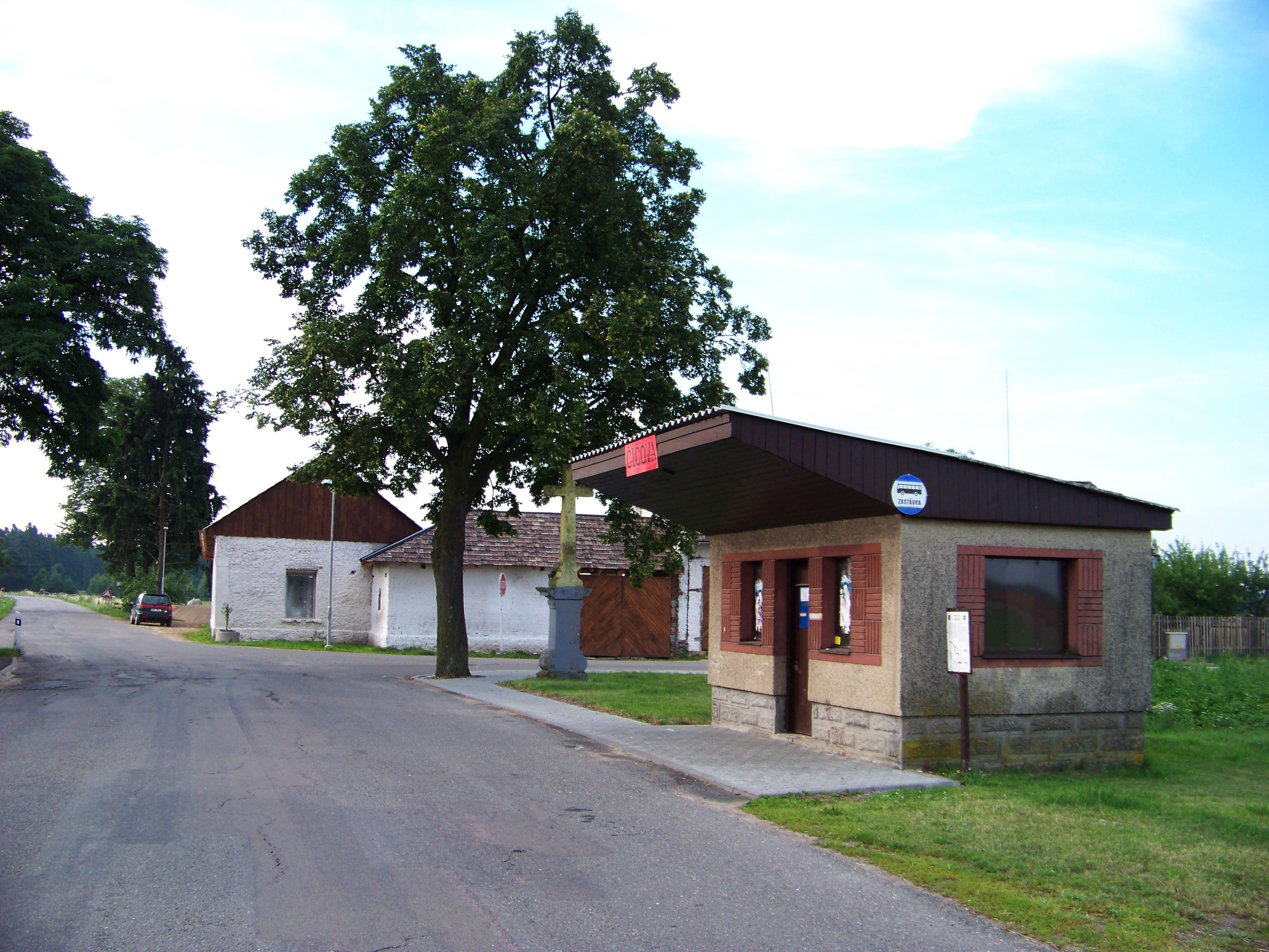 Čermná nad Orlicí-Velká Čermná, Rychnov nad Kněžnou District, Hradec Králové Region, the Czech Republic. A cross and a bus stop.